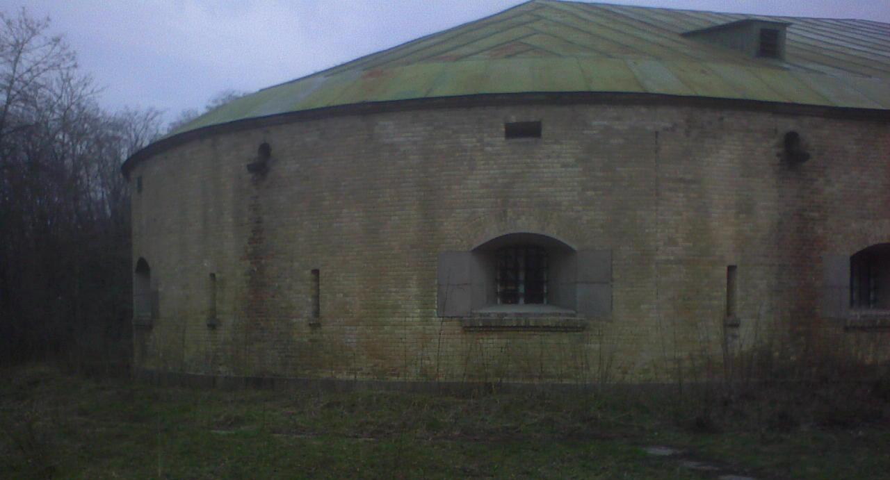 "Skew Caponier" of the Kiev fortress